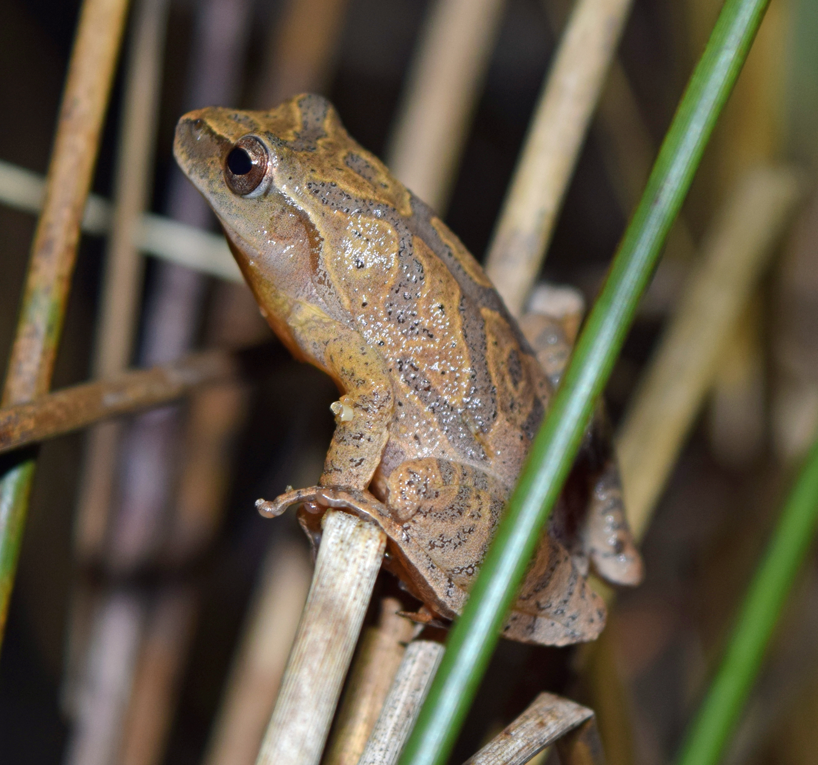 An adult male Pseudacris crucifer (spring peeper) at the University of Mississippi Field Station.